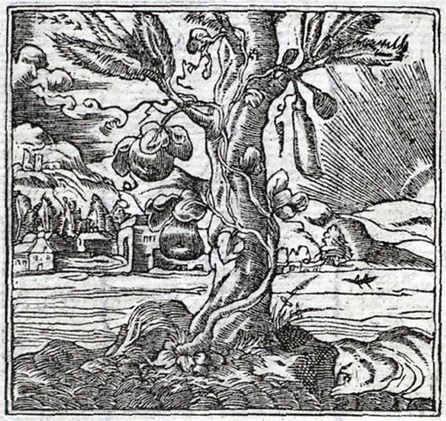 The fable of "The Gourd and the Palm" from Andrea Alciato's Emblemata (Lyon 1550) illustrating the brief duration of good fortune